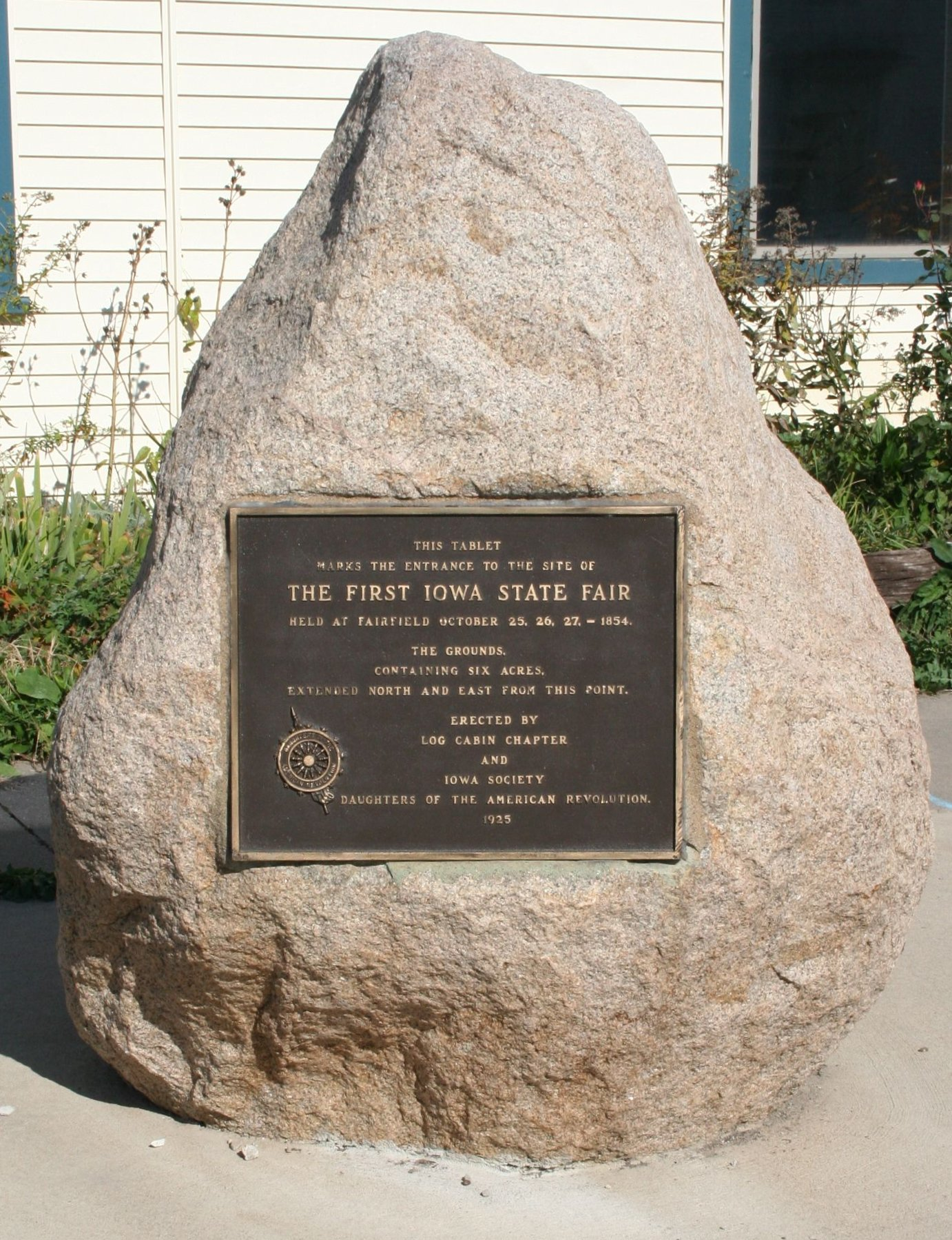 Monument commemorating site of the entrance to the First Iowa State Fair, October 25-27, 1854. The monument is located on the north-east corner of the intersection of West Grimes Street and North 4th Street, in Fairfield, the seat of Jefferson County, Iowa. The plaque reads: "This tablet marks the entrance to the site of the First Iowa State Fair, held at Fairfield, October 25, 26, 27 - 1854. The grounds containing six acres, extended north and east from this point. Erected by Log Cabin Chapter and Iowa Society Daughters of the American Revolution."